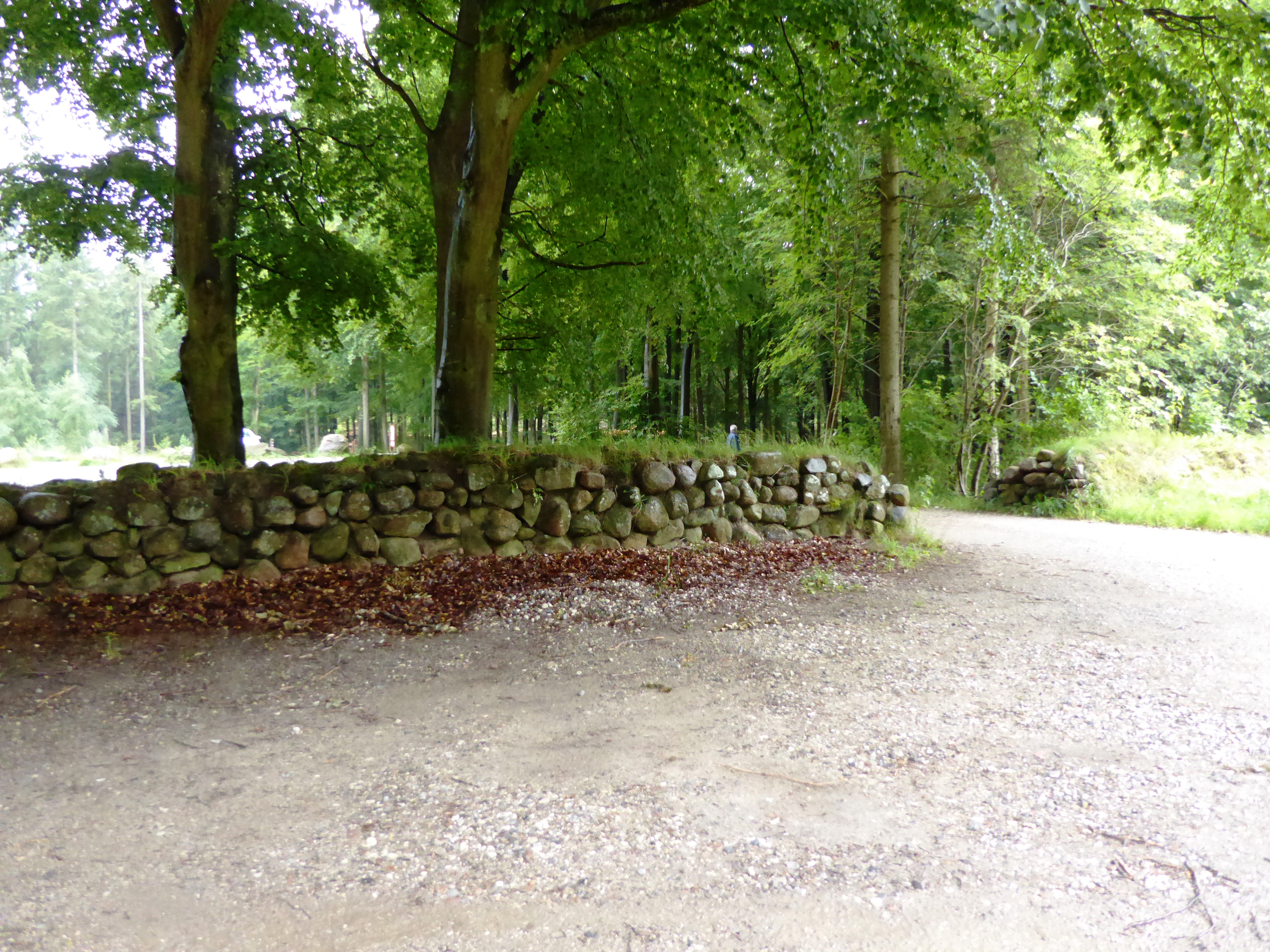 Store Dyrehave's stone wall on Overdrevsvej in Hillerød, Denmark